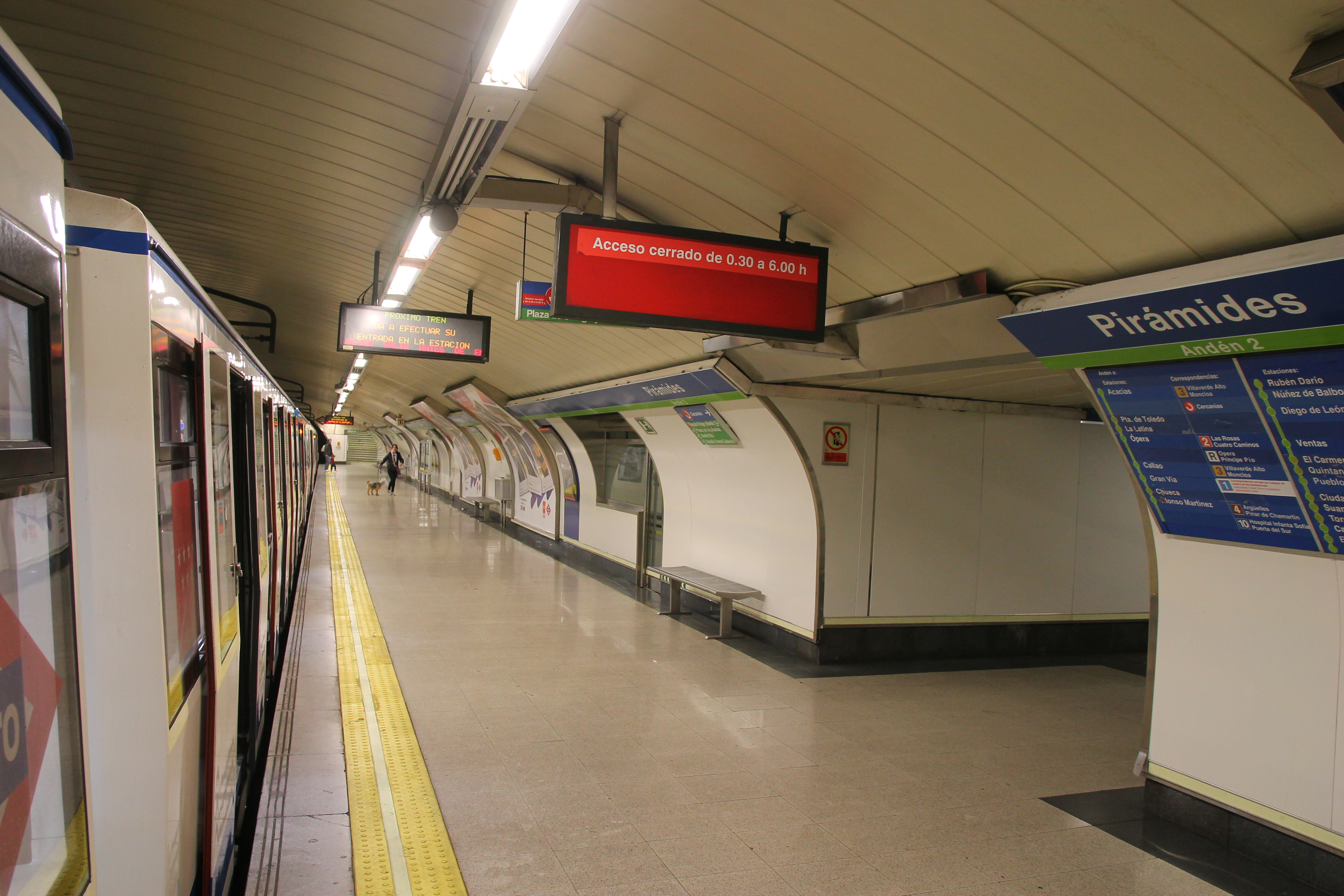 Estación de Pirámides